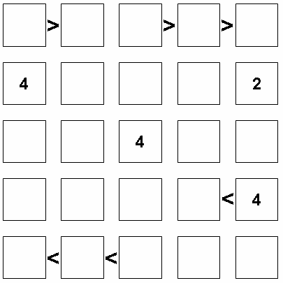 Example of Futoshiki puzzle - see Futoshiki2 for solution